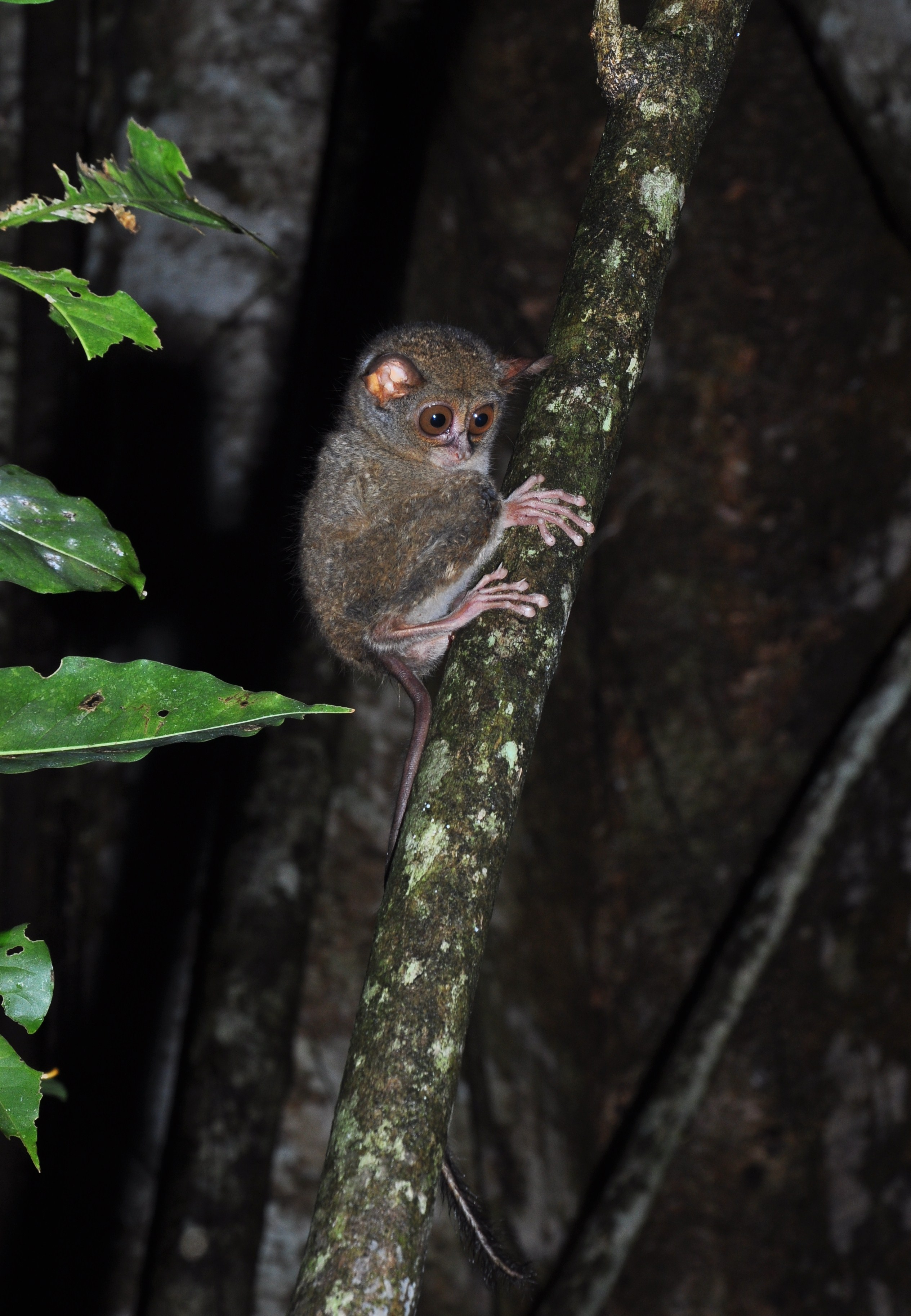 Spectral tarsier